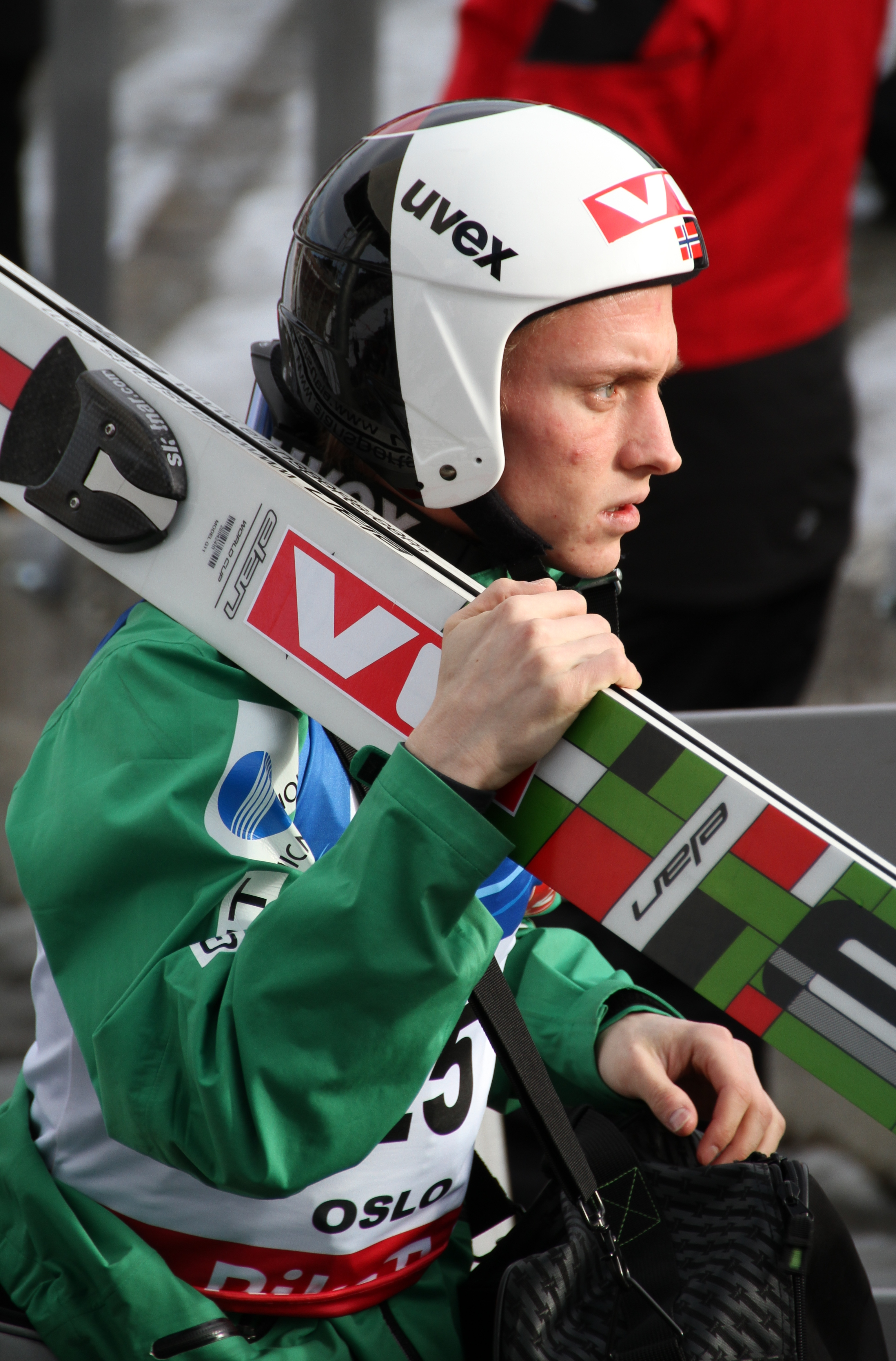 Holmenkollen, Oslo. FIS World Cup Ski Jumping, first round. March 11, 2012. This was the third last WC tournament of the season.